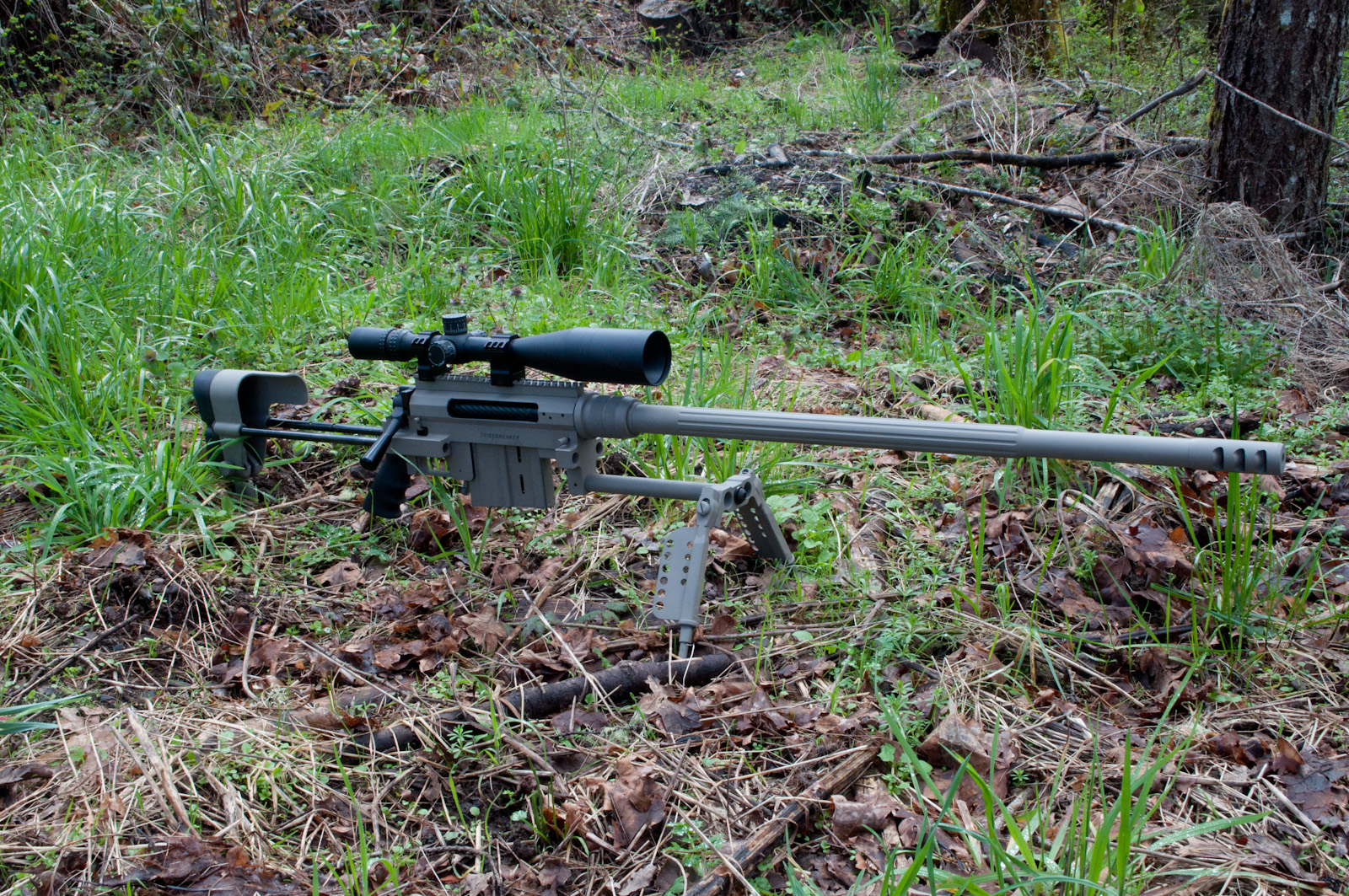 THOR XM408 CheyTac .408 Sniper Rifle